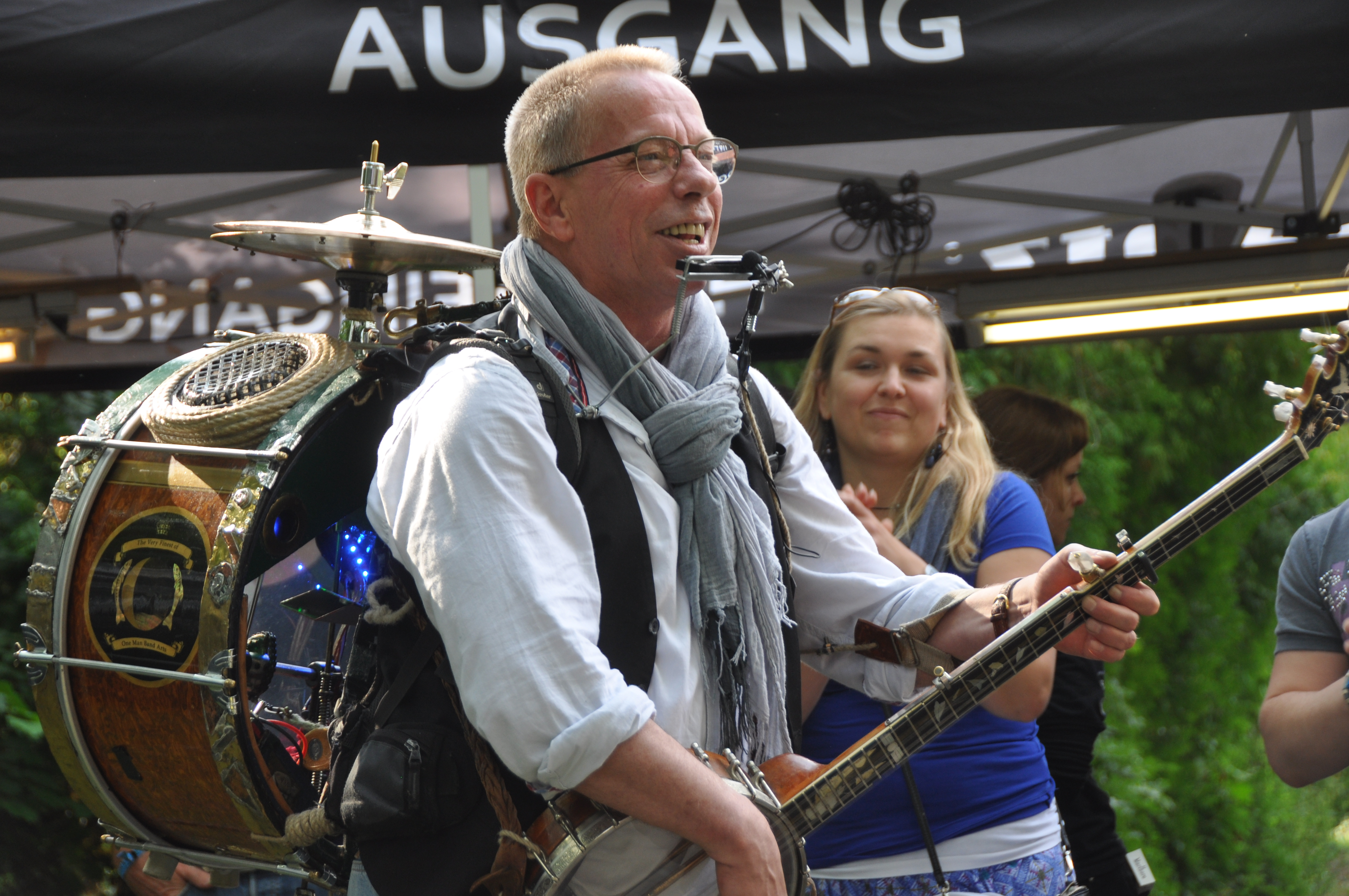 Chris Lejeune, appearence at the 1st blacksheep festival in the castle yard / castle park of Bad Rappenau - Bonfeld (Germany)